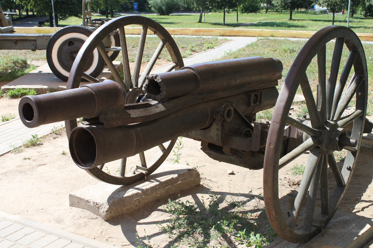 Cannon